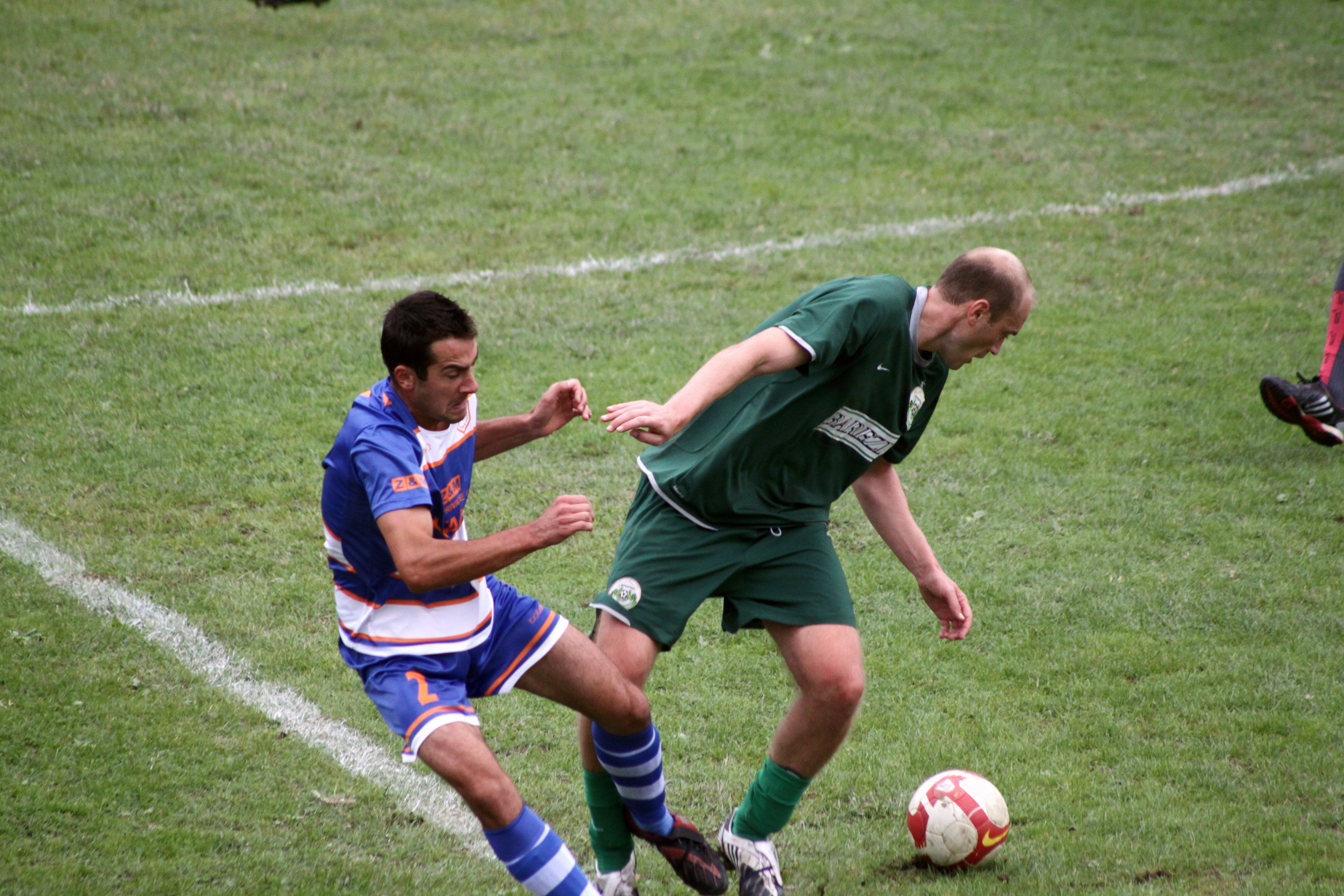 Marian Hristov (Bulgarian: Мариян Христов) (born July 29, 1973) is a Bulgarian footballer, who is currently playing for PFC Balkan Botevgrad of the Bulgarian "V" PFG.